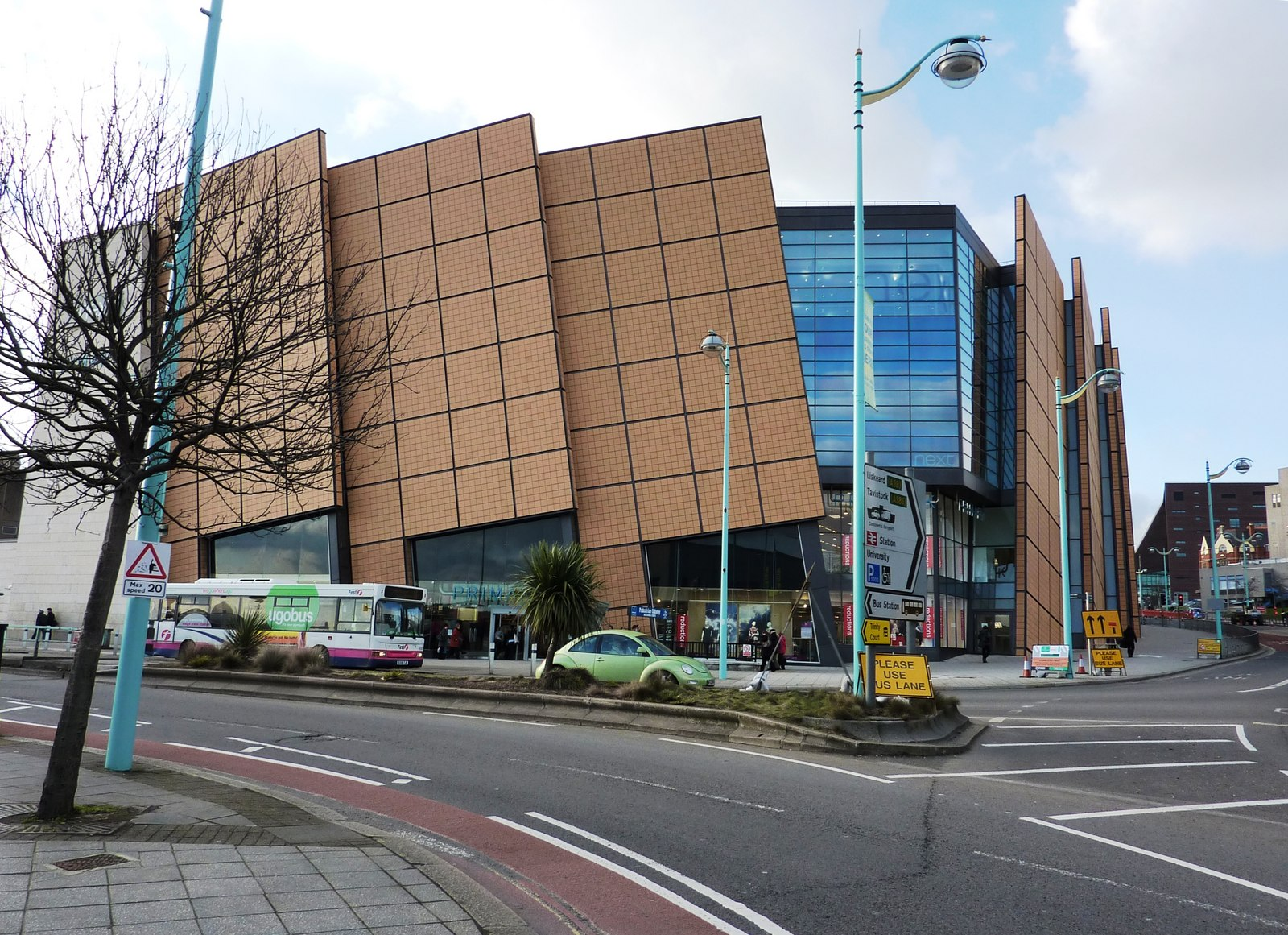 Drake Circus Shopping Centre, Plymouth It's not just the wide-angle lens that affects the verticals here. The huge cladding panels are indeed set on the diagonal as a feature of the design.